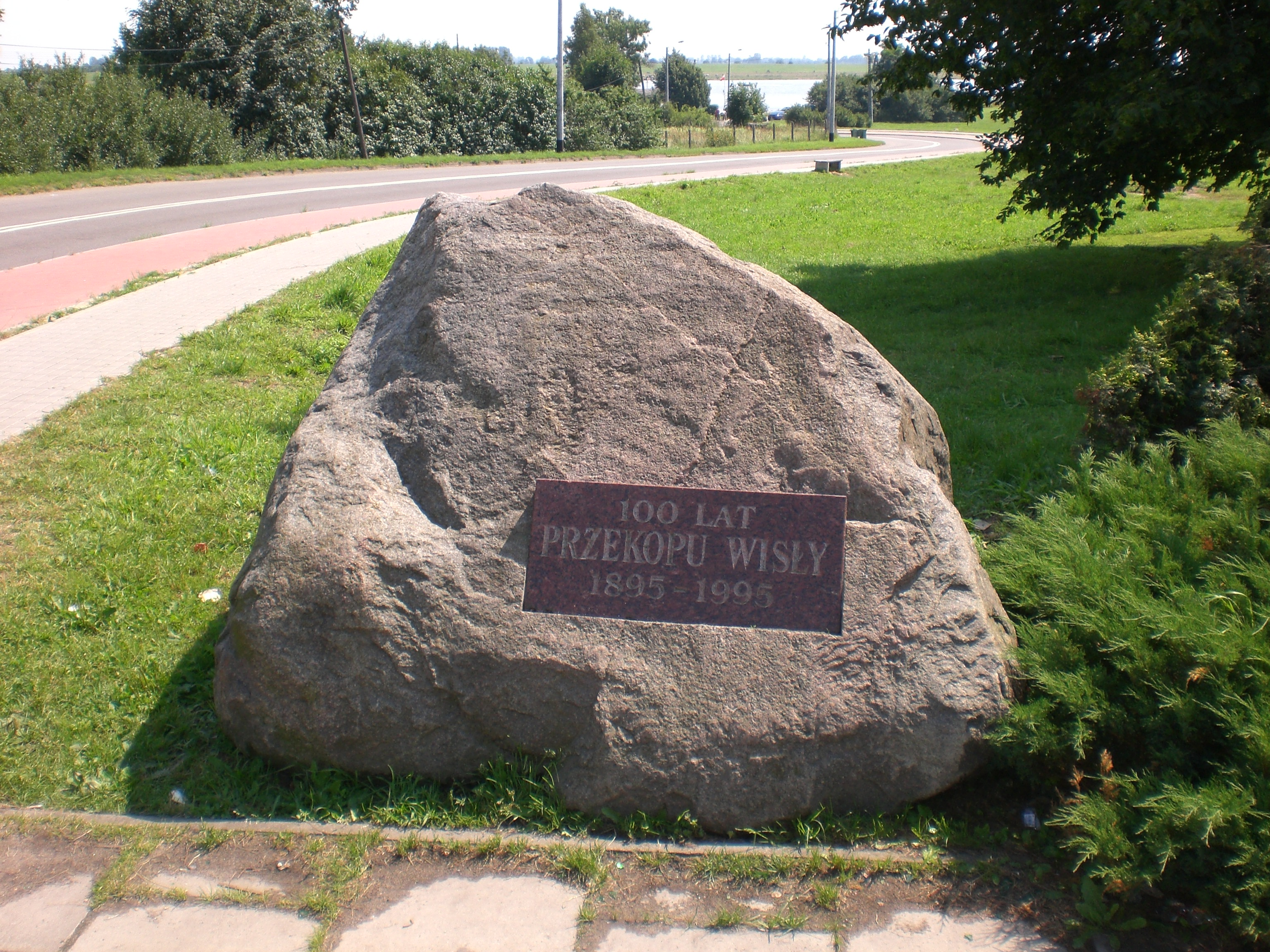 Memorial stone of Vistula Przekop in Gdańsk Świbno